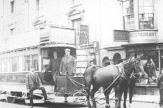 Picture of a horse-drawn tram in Oxford St., Southampton, c.1895.